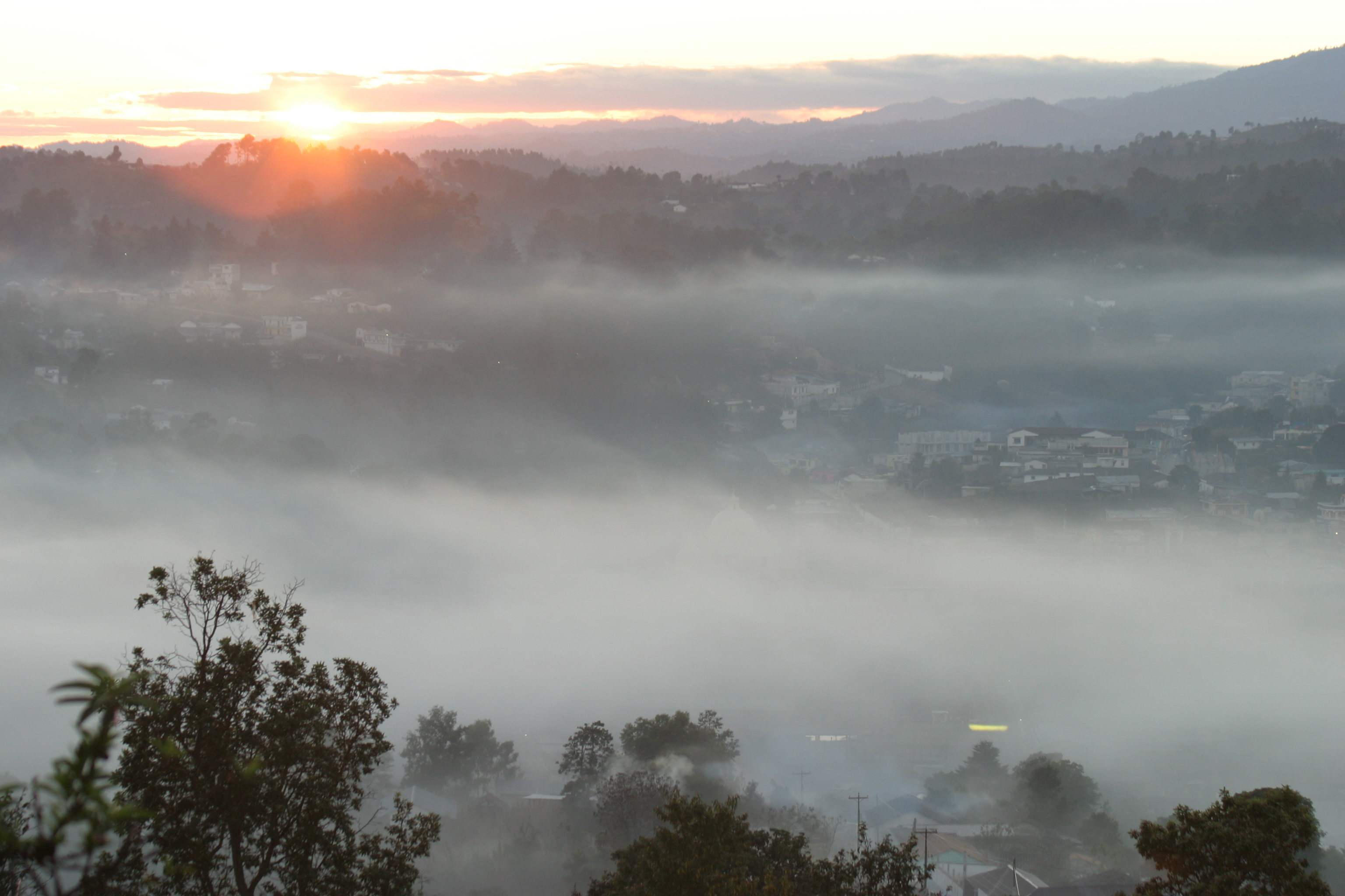 Sunset over Momostenango. This picture was taken in November of 2004 in the Quiche Maya town of Momostenango, Guatemala. It was taken from the Guatemala Friendship School.